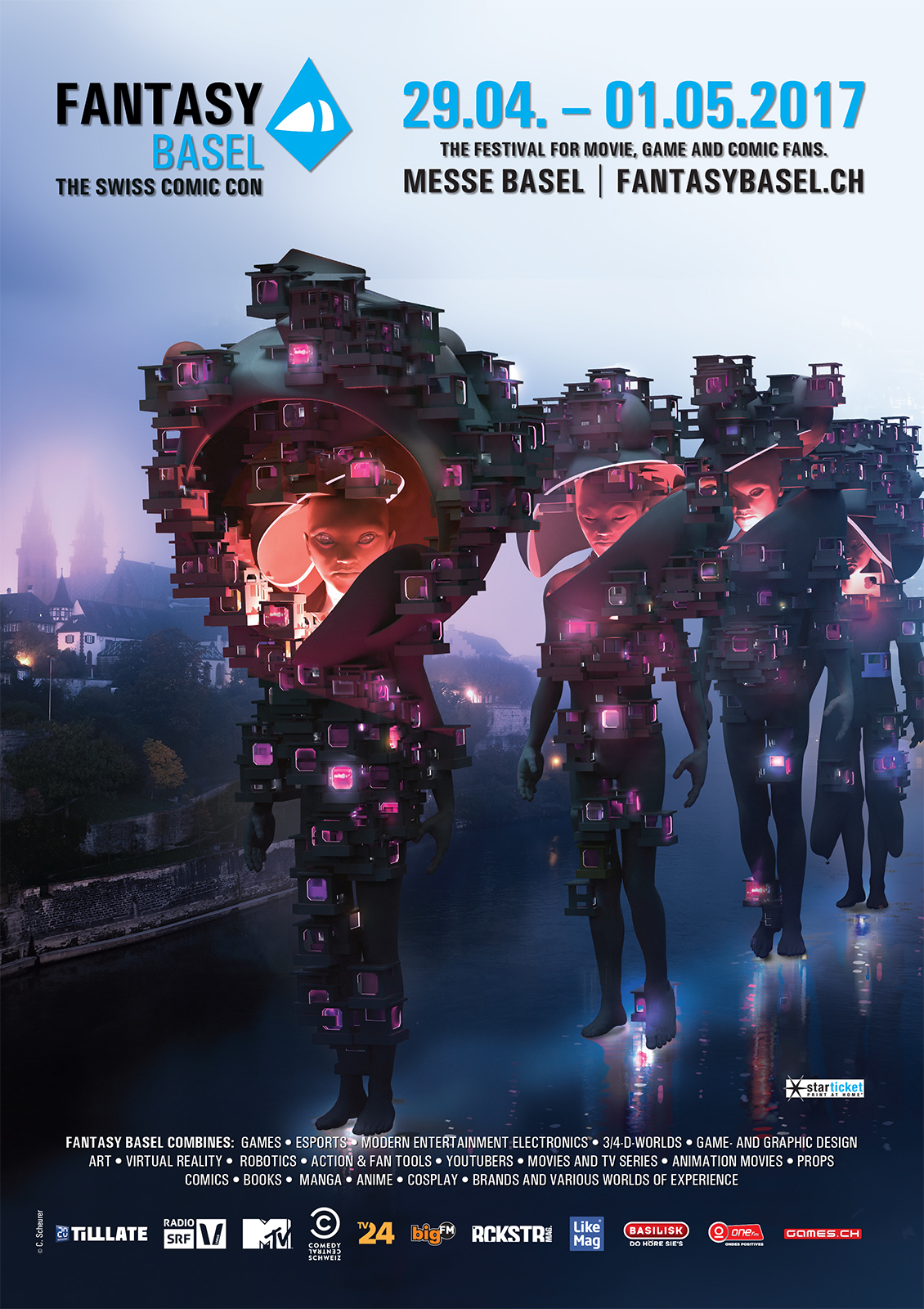 Visual: FANTASY BASEL - The Swiss Comic Con 2017 by Christian Scheurer